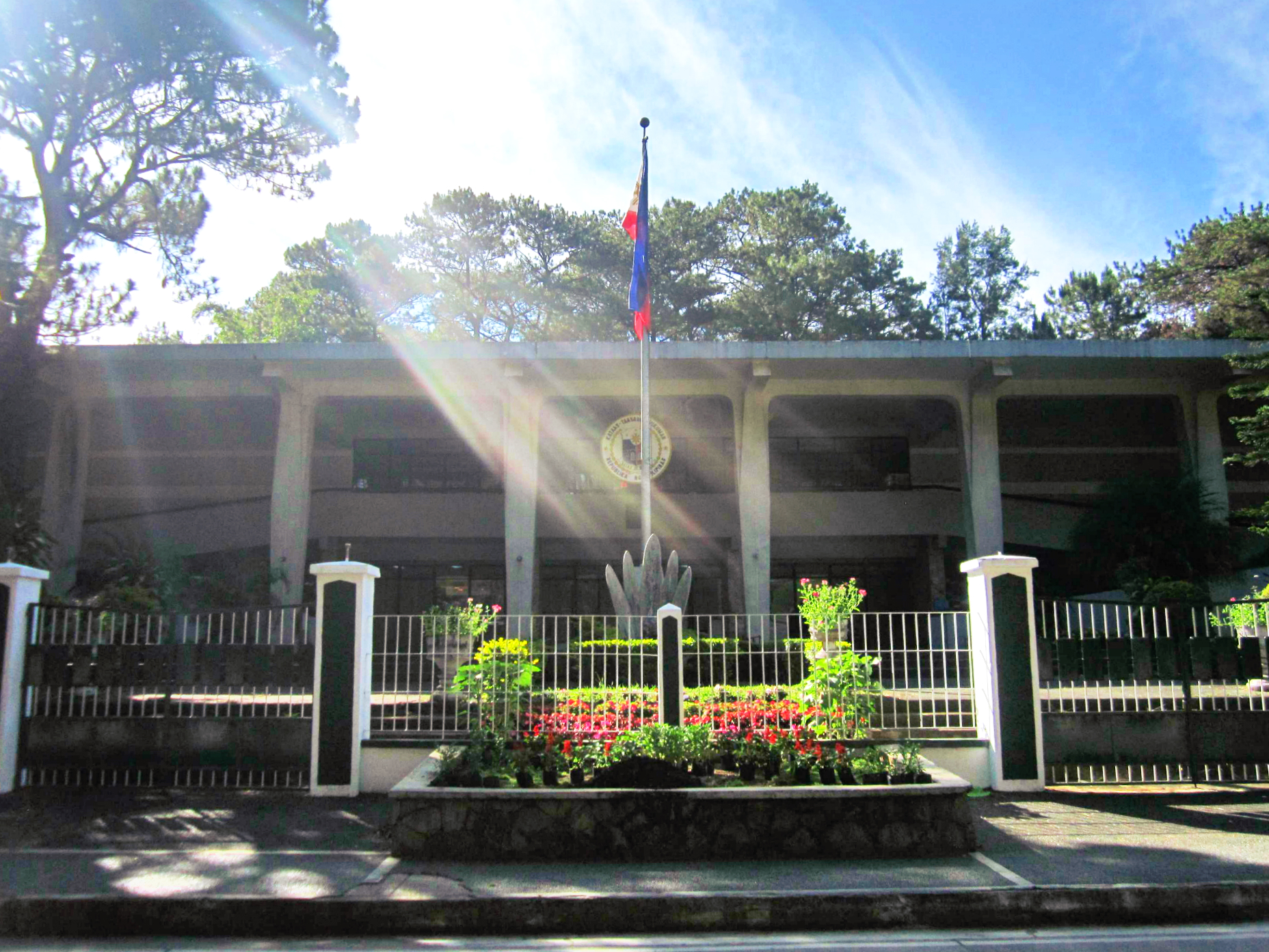 Office of the Supreme Court of the Philippines in Baguio City.